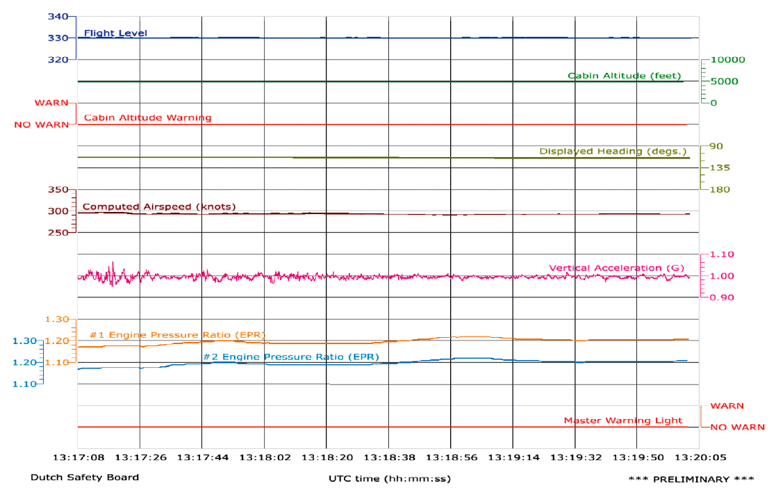 Flight data recording of Malaysia Airlines Flight 17 on 17 July 2014, 13:17 to 13:20 UTC